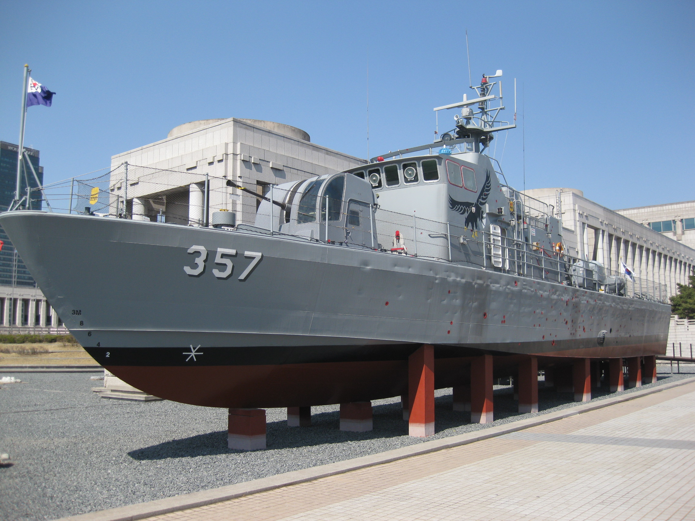 A PKM 301 Chamsuri class patrol boat, marked to replicate the battle-damaged PKM 357 following the Second Battle of Yeonpyeong on 29 June 2002, on display at the War Memorial of Korea